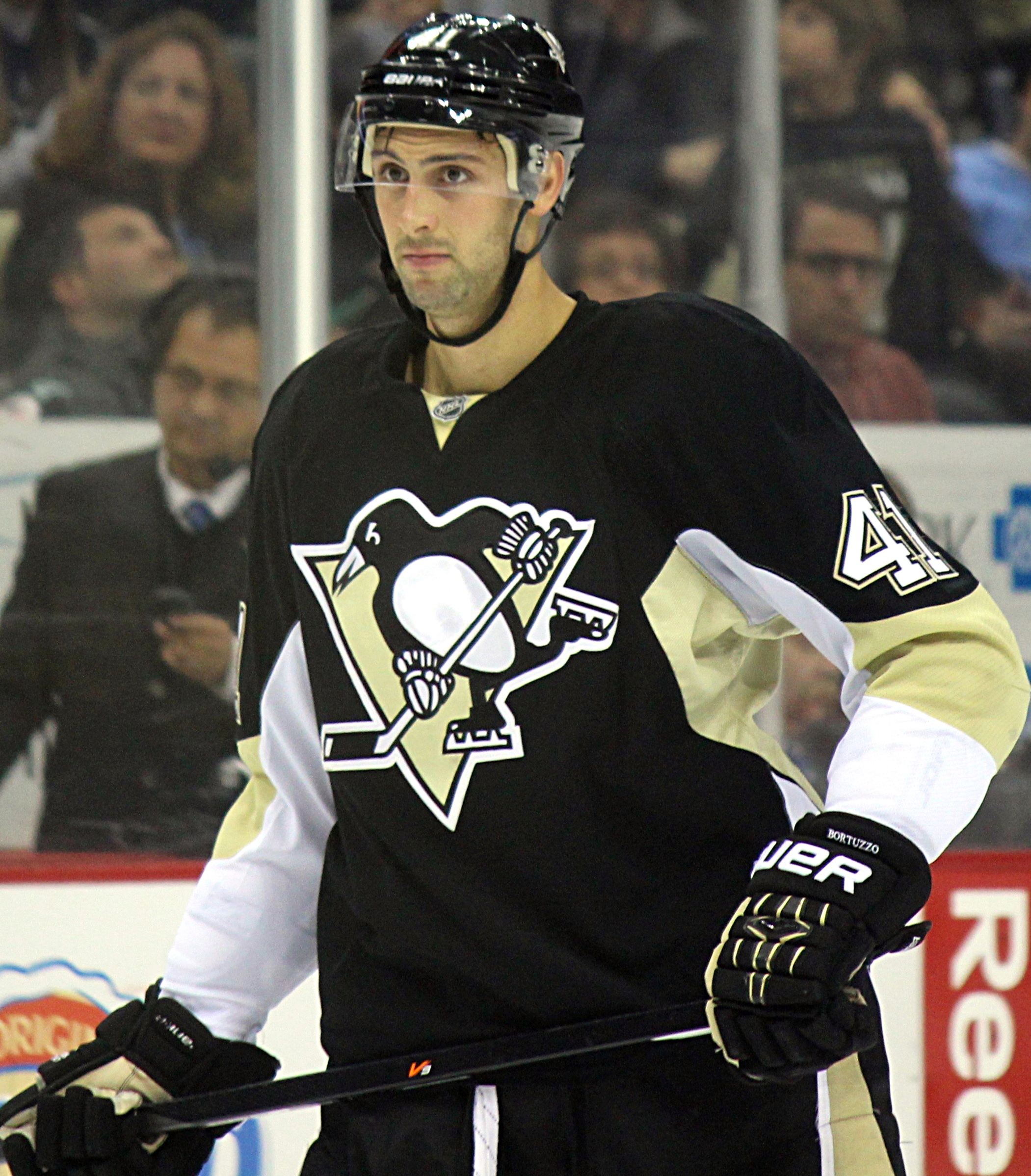 Pittsburgh Penguins defenseman Robert Bortuzzo during a game against the St. Louis Blues, March 23, 2014, at Consol Energy Center in Pittsburgh, PA.